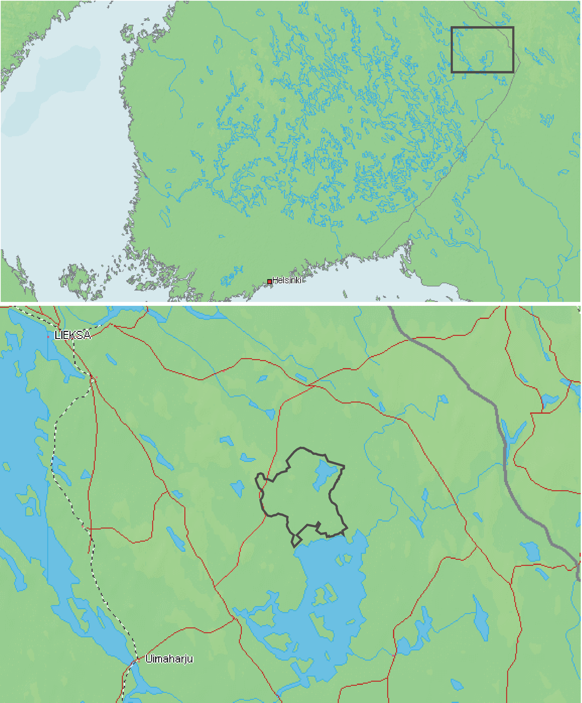 Map indicating the location of the Patvinsuo National Park in Finland.